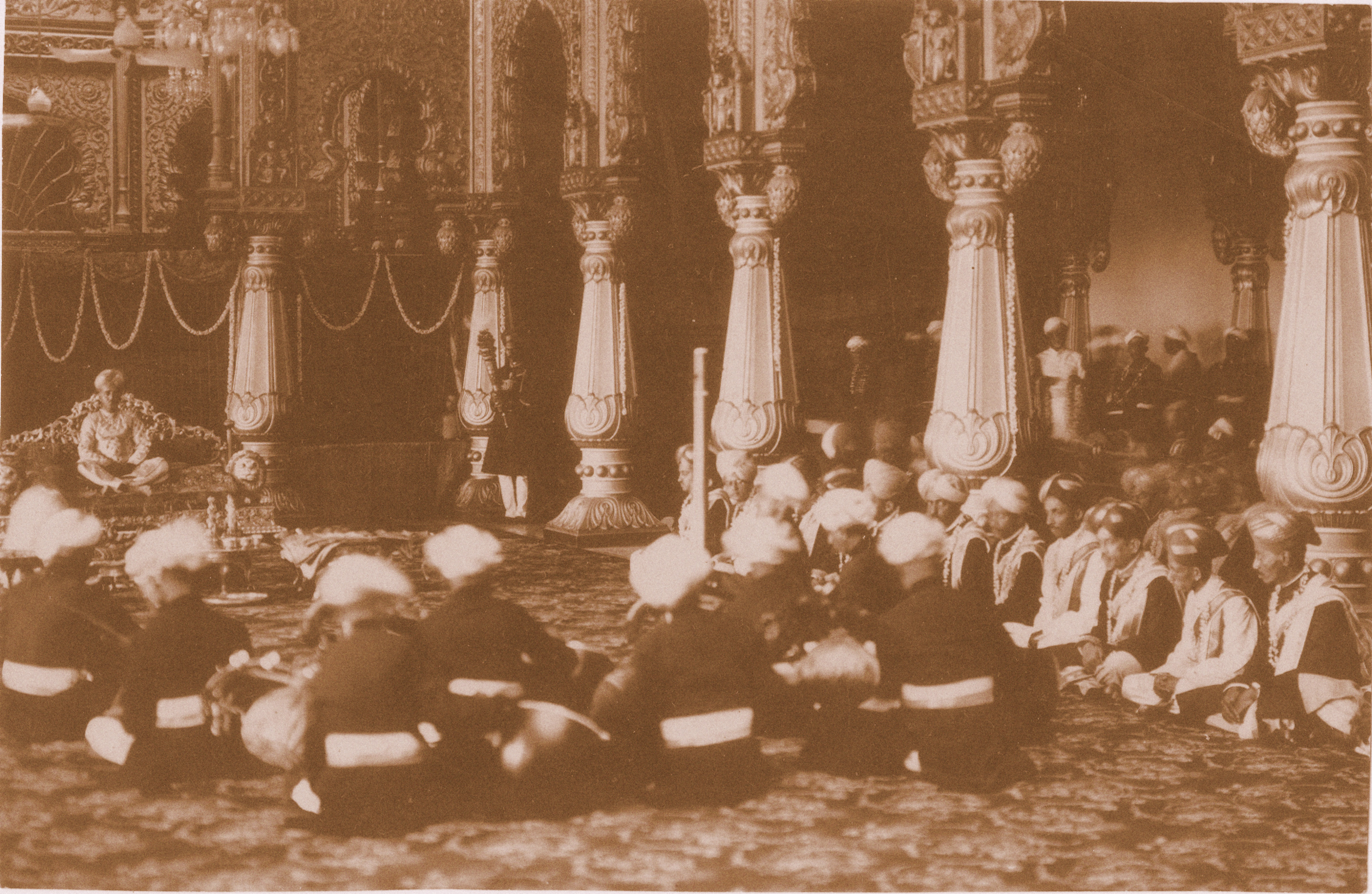 From Personal collections